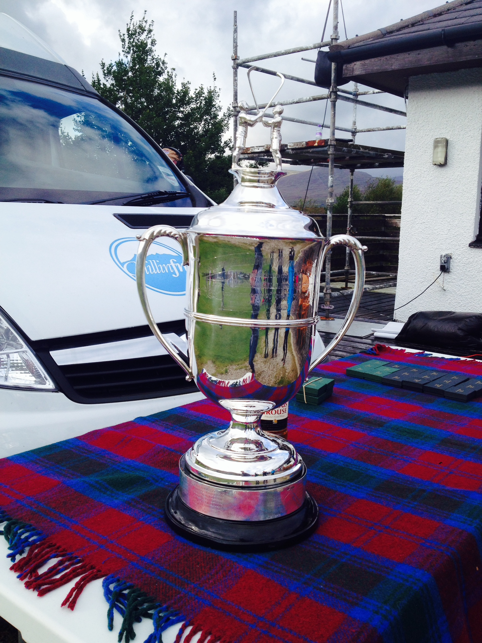 The MacGillvary Cup, the trophy for North Division One in Shinty - taken in Portree